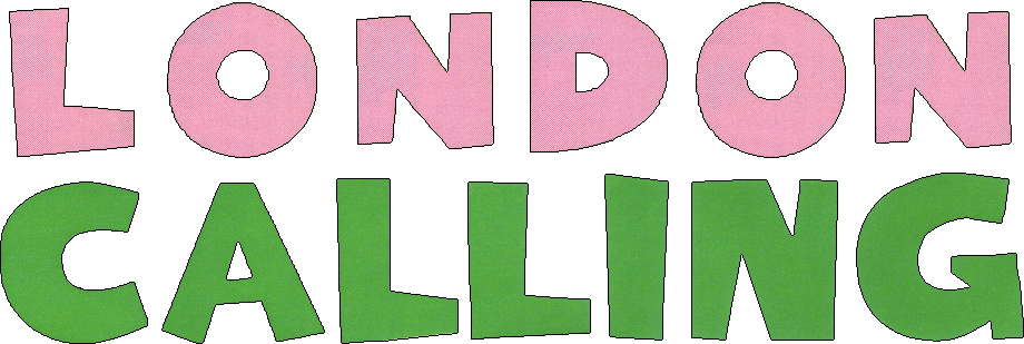 The logotype for the album "London Calling" by The Clash.